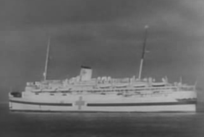 USAHA At Sea in WWII Italian Campaign, 1943